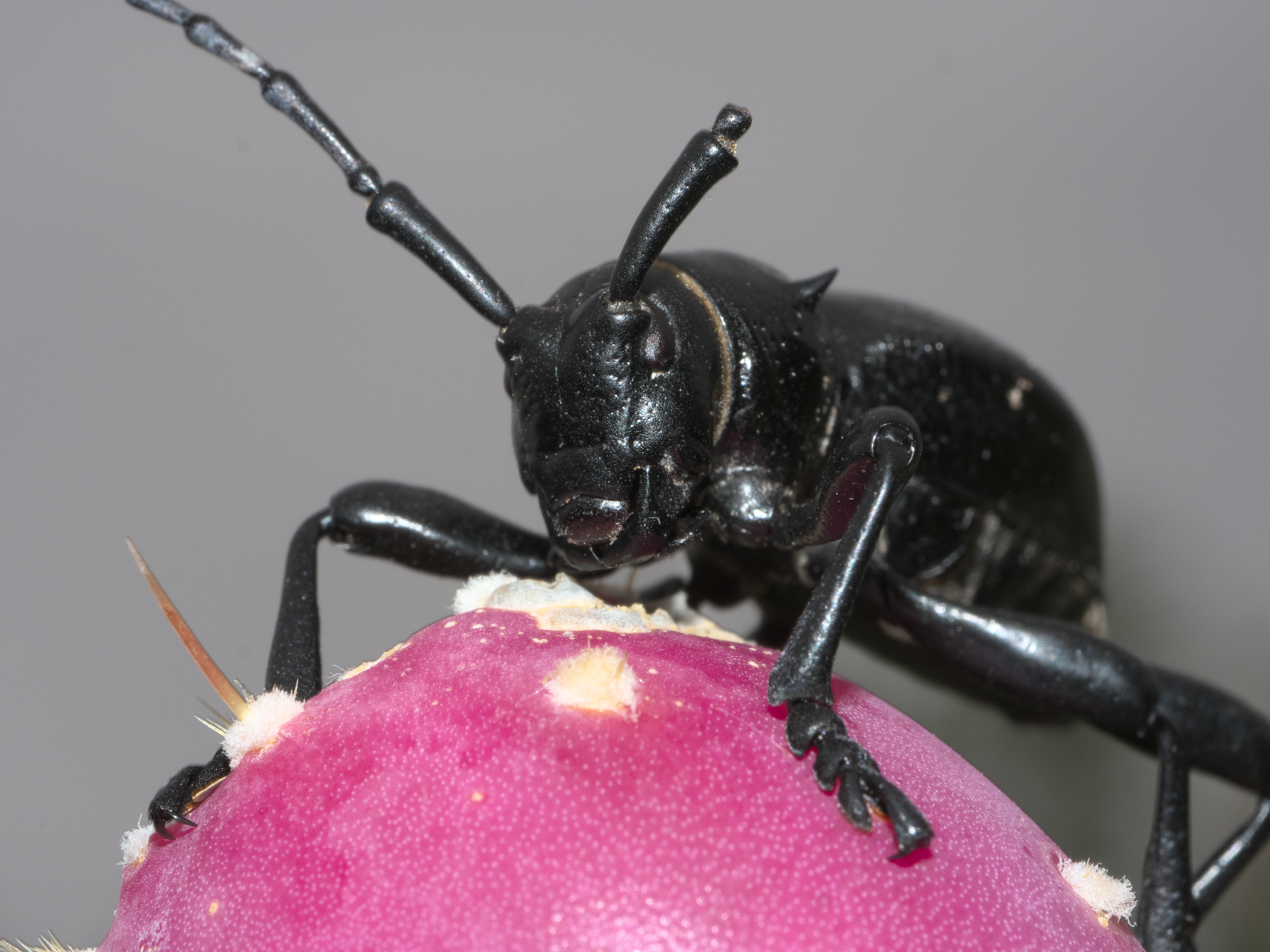 Moneilema gigas, cactus longhorn beetle, ID Confidence: 92